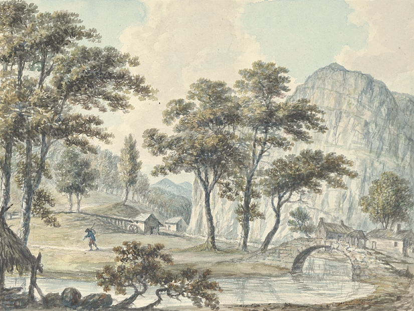 View from the Loggerheads, 1796